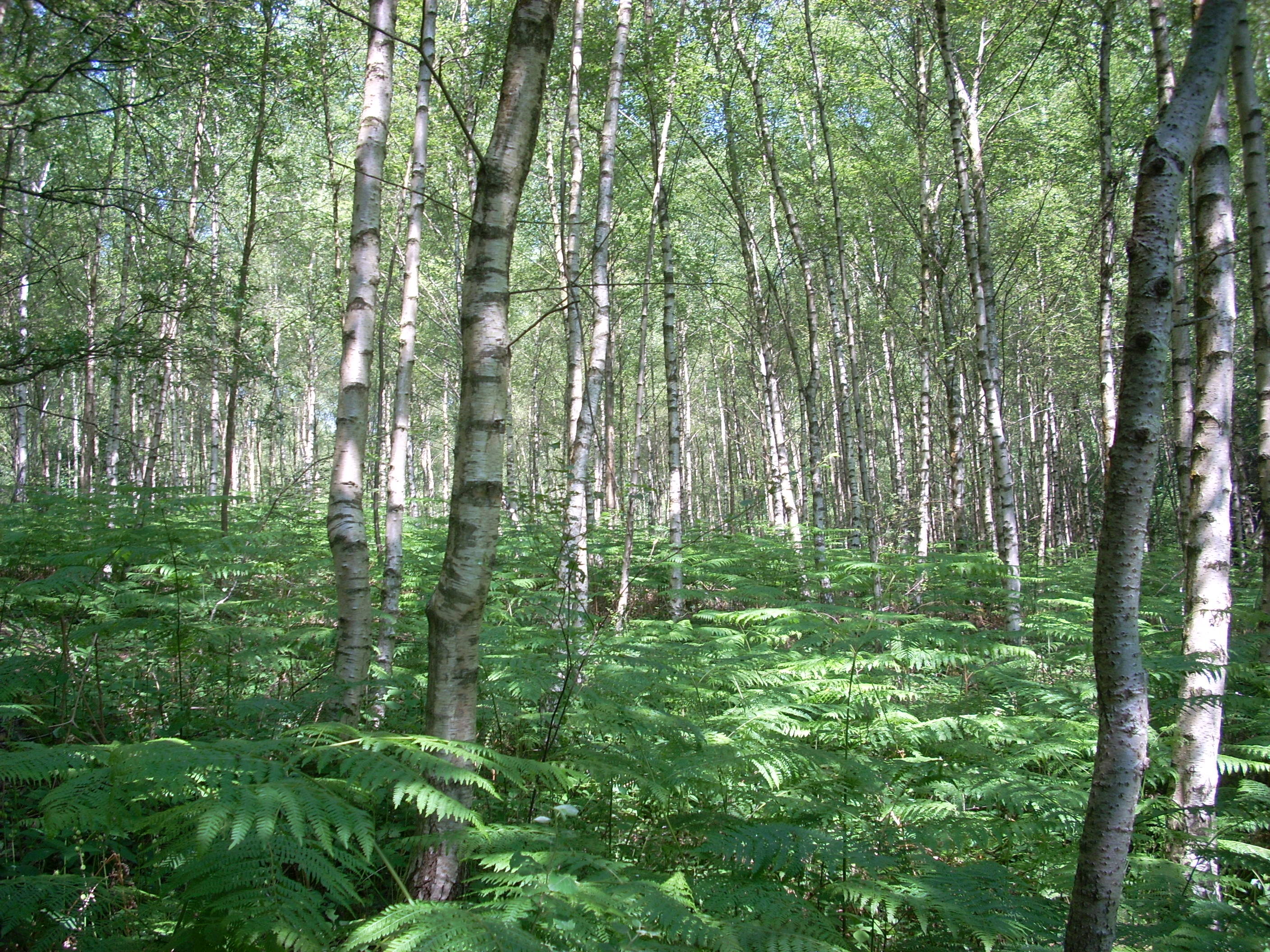 Birchwood on Watersfield Common near Watersfield, West Sussex, UK.